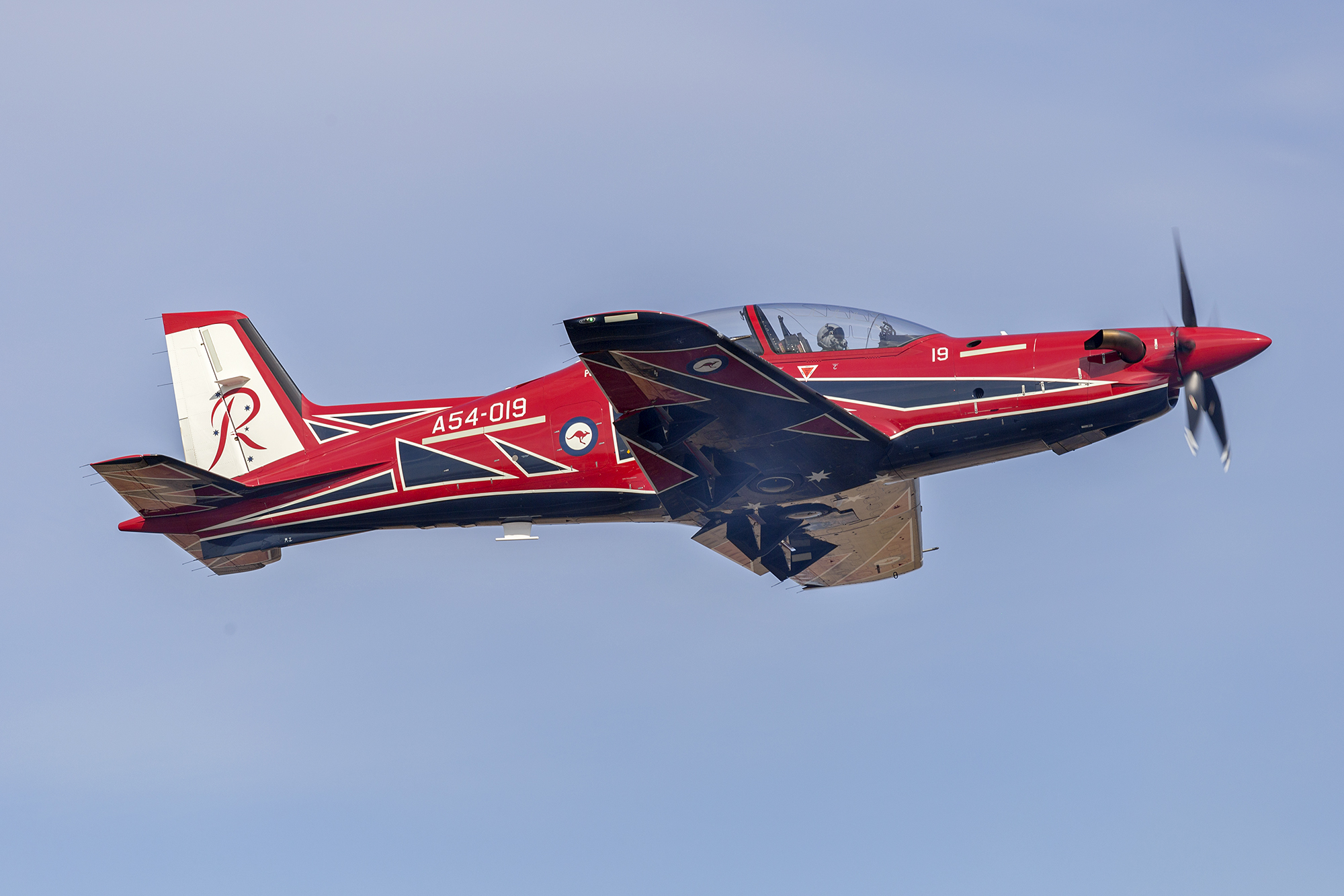 RAAF Roulette (A54-019) Pilatus PC-21 at the 2019 Australian International Airshow.